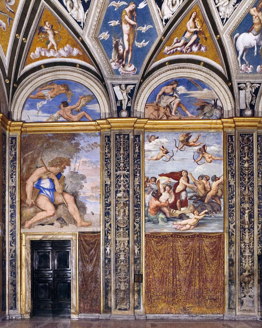 Raphael's Triumph of Galatea